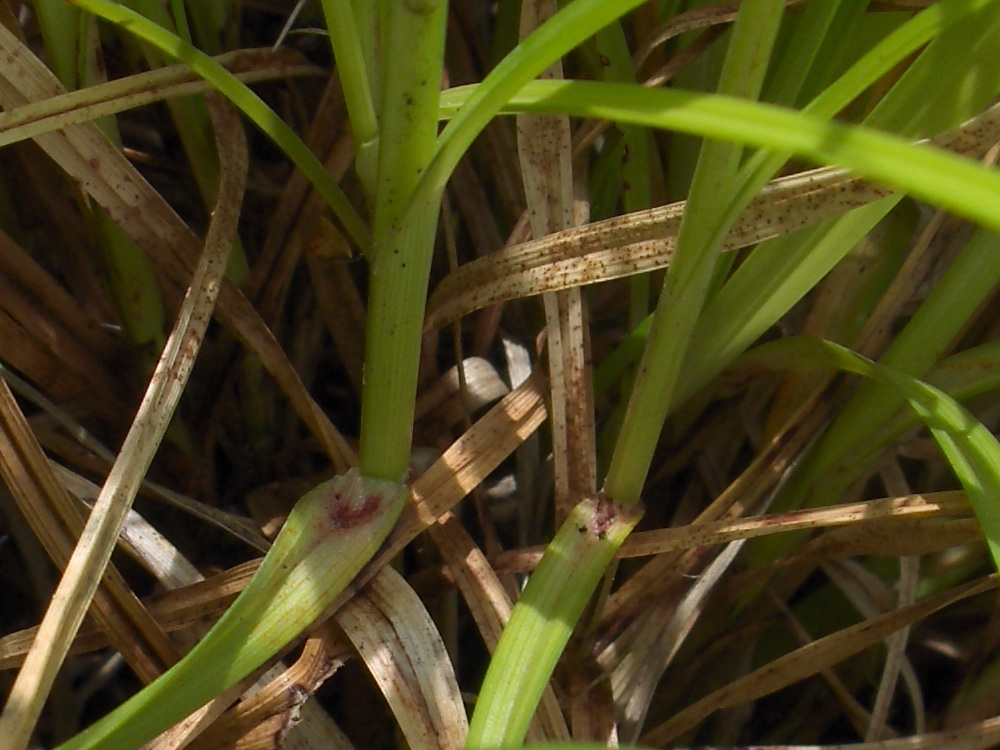 Basal leaves and leaf sheaths of Carex spicata, showing the characteristic purple colouring.